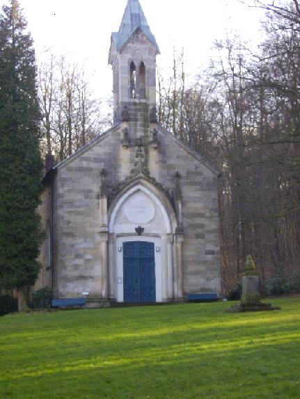 Frederica Chapel, named after Frederica of Mecklenburg-Strelitz, Queen consort of Hanover.